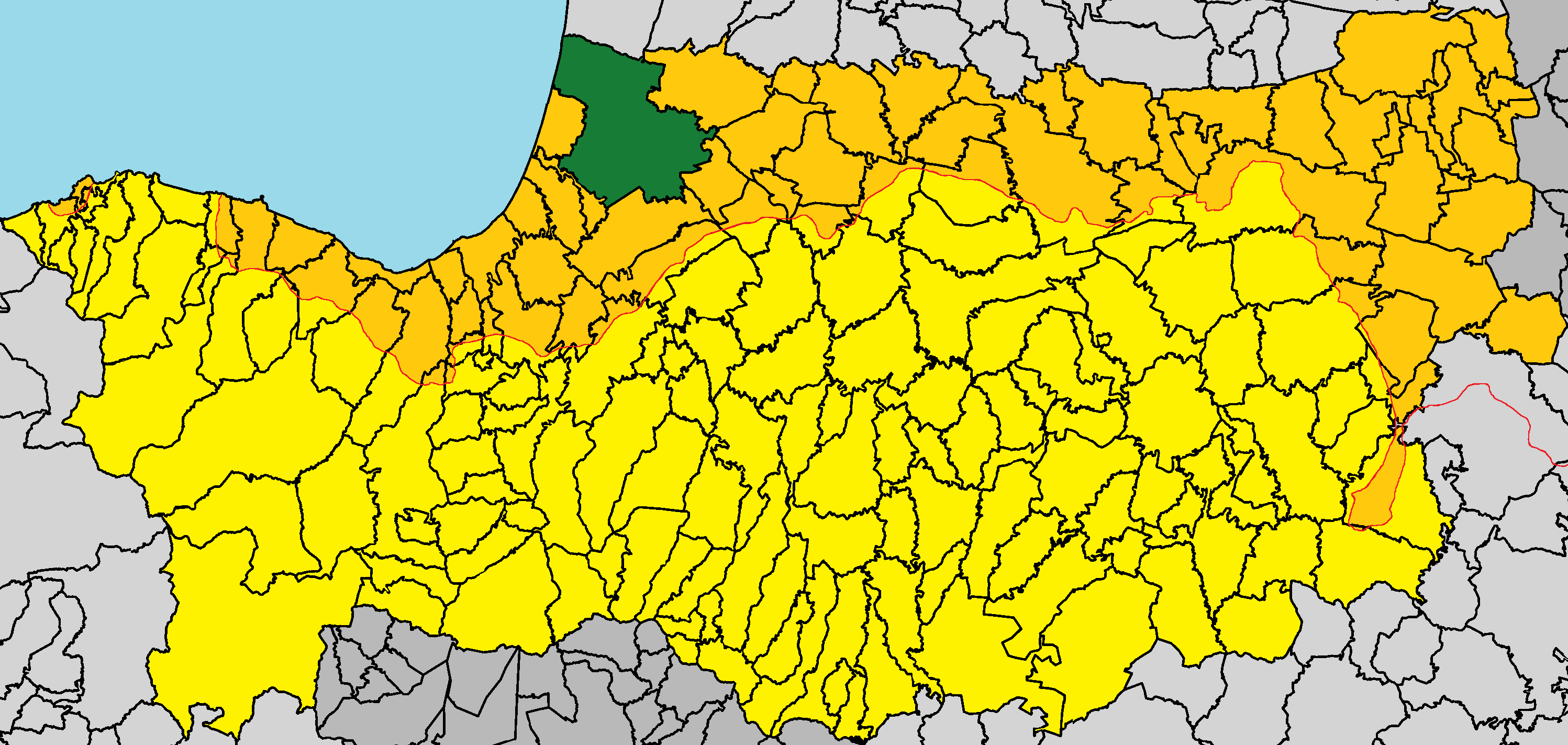 Morfou in Nicosia District (de jure).